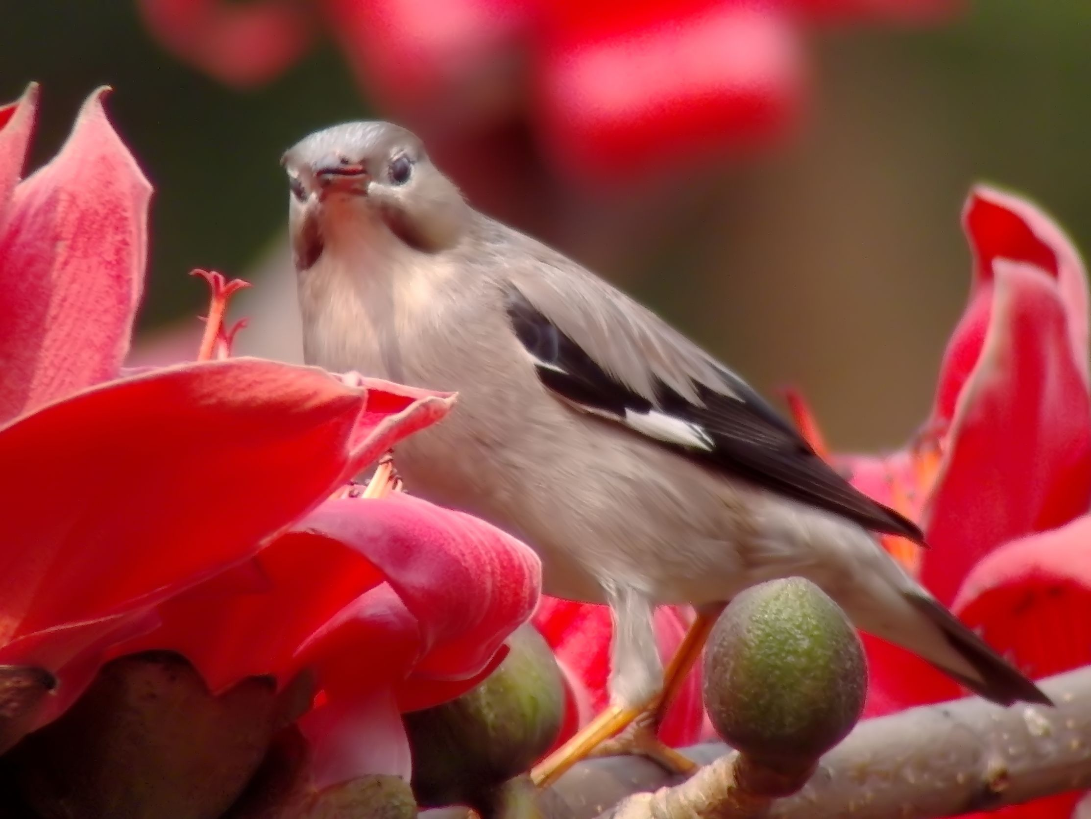 Saw at roadside . Got a video as well.